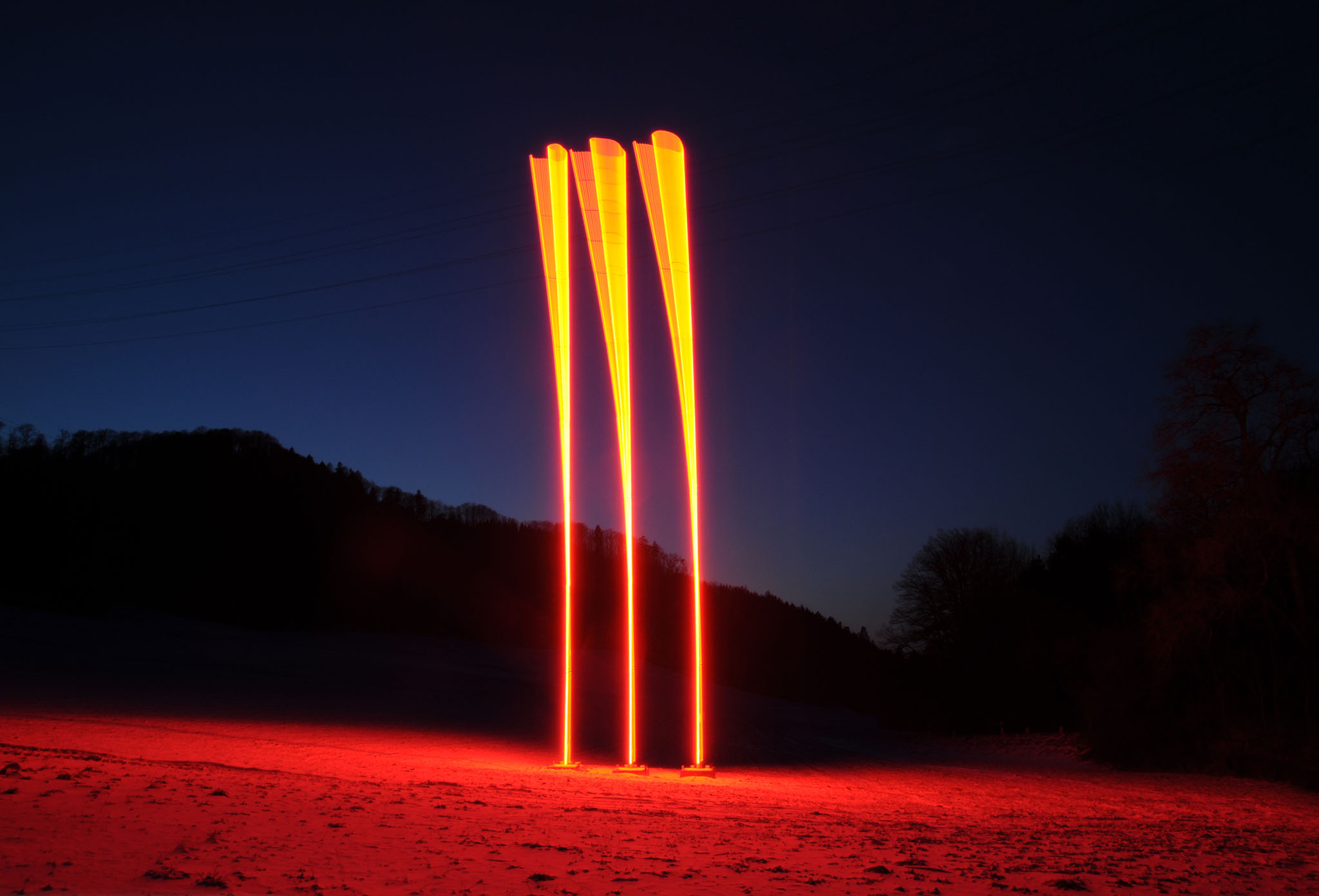 Three Red Lines in a Landscape, each 25 meters high, swaying in the wind in an icy storm in January 2010. Artist: Christopher T. Hunziker